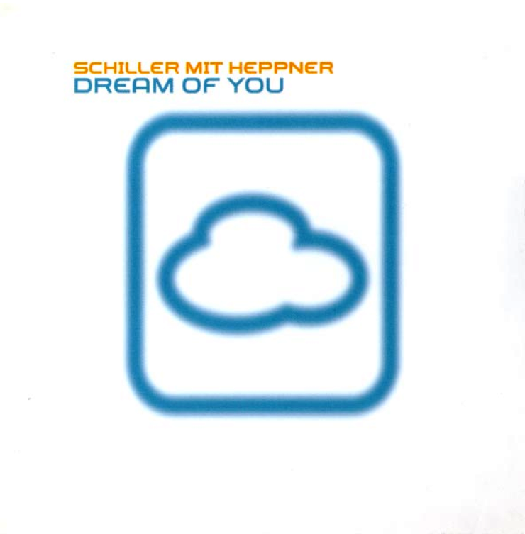 „Dream of You“ Limited-Maxi-Single-Cover by Schiller mit Heppner.